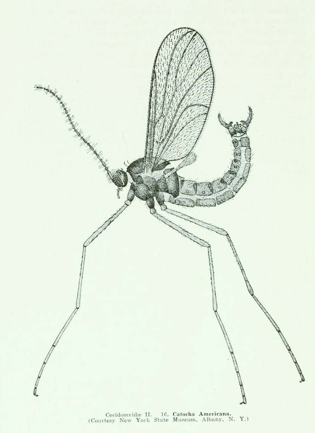 Charles Howard Curran , 1934 The families and genera of North American Diptera C.H. Curran in [New York] .